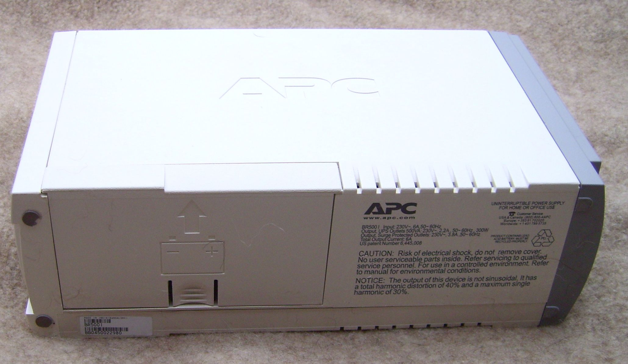 Uninterruptible power supply (UPS) by American Power Conversion (APC). Model Back-UPS RS 500. APC part number BR500I, 300 Watts / 500 VA, Input 230V / Output 230V. Control panel with LED status display On Line / On Battery / Replace Battery / Overload indicators. Alarm when on battery / distinctive low battery alarm / overload continuous tone alarm